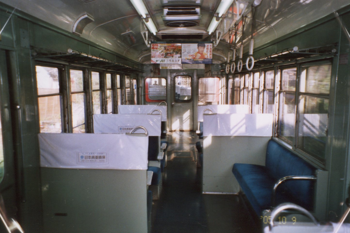 car interior of Fukui Railway type 80